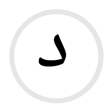 HS Letter (arabic alphabet)